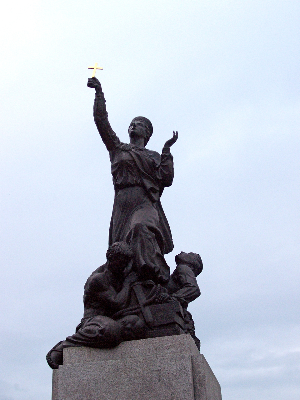 Statue "Latgales Mara", Rezekne, Latvia